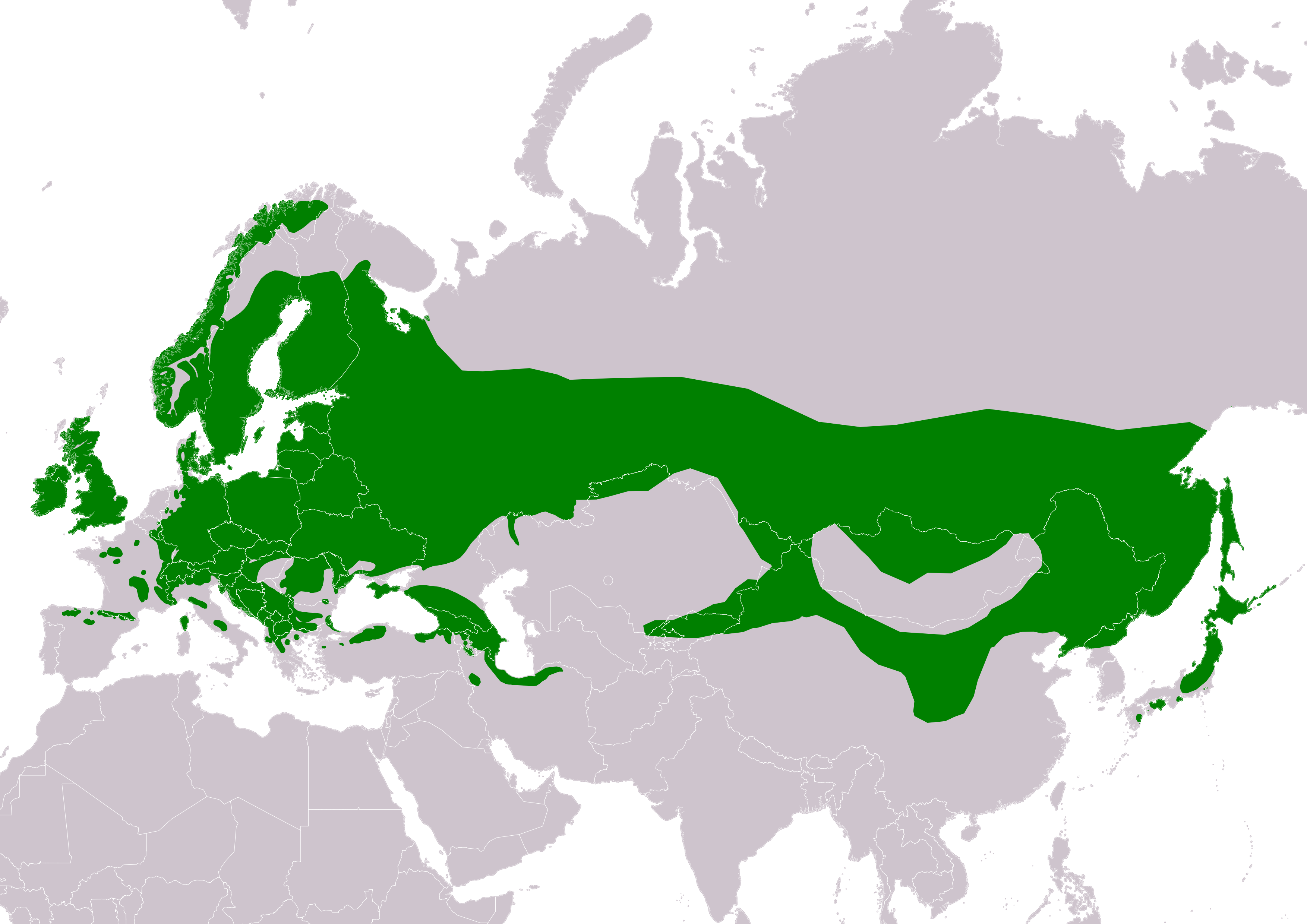 Distribution map of Eurasian Treecreeper (Certhia familiaris) according to IUCN version 2019-2; key: Legend: Extant, resident (#008000)